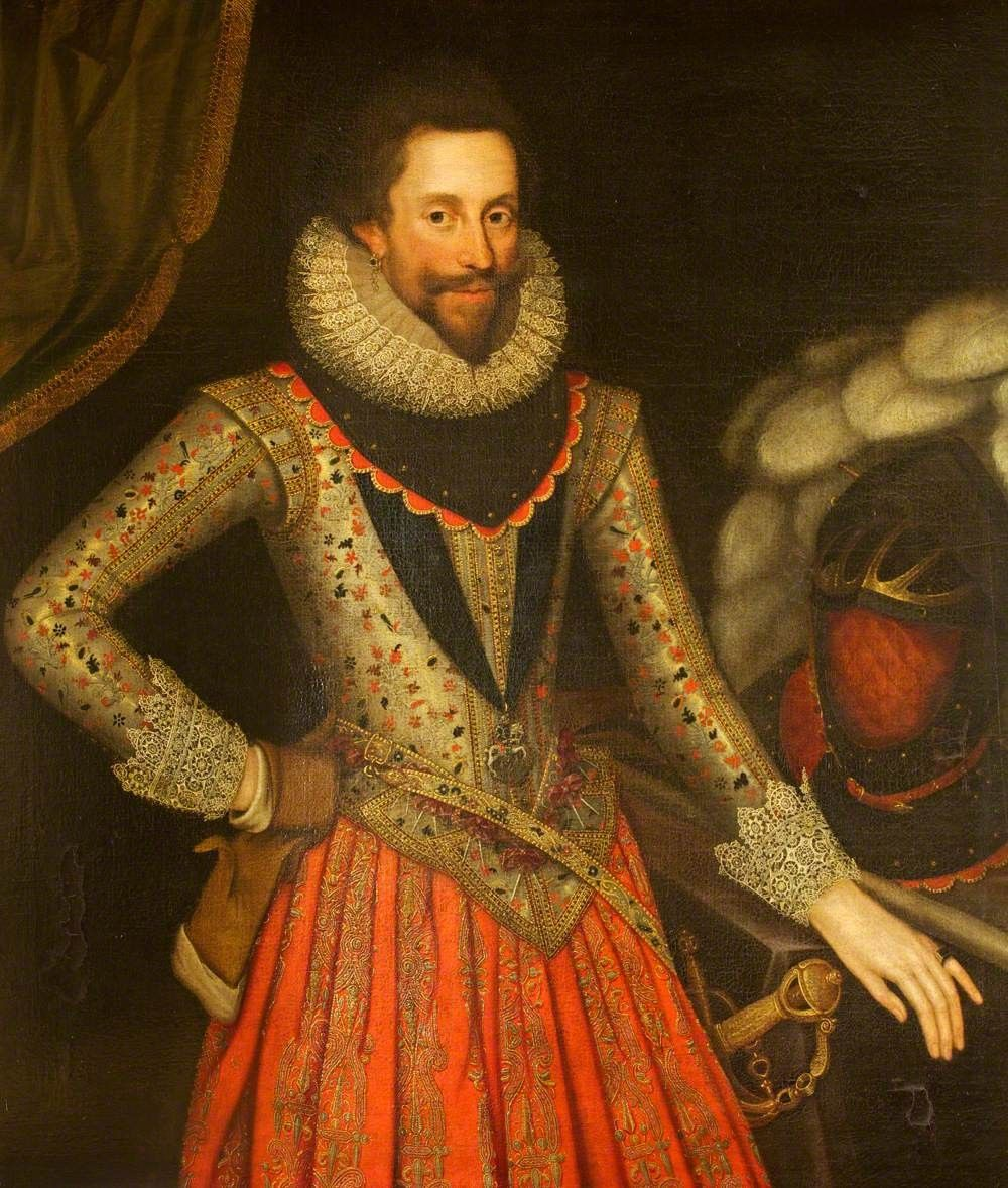 Henry Wriothesley, 3rd Earl of Southampton